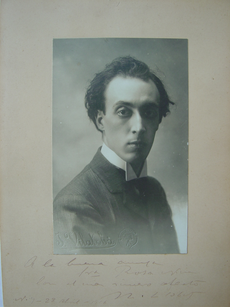 Portrait of classical guitarist/composer Miguel Llobet dated 1916